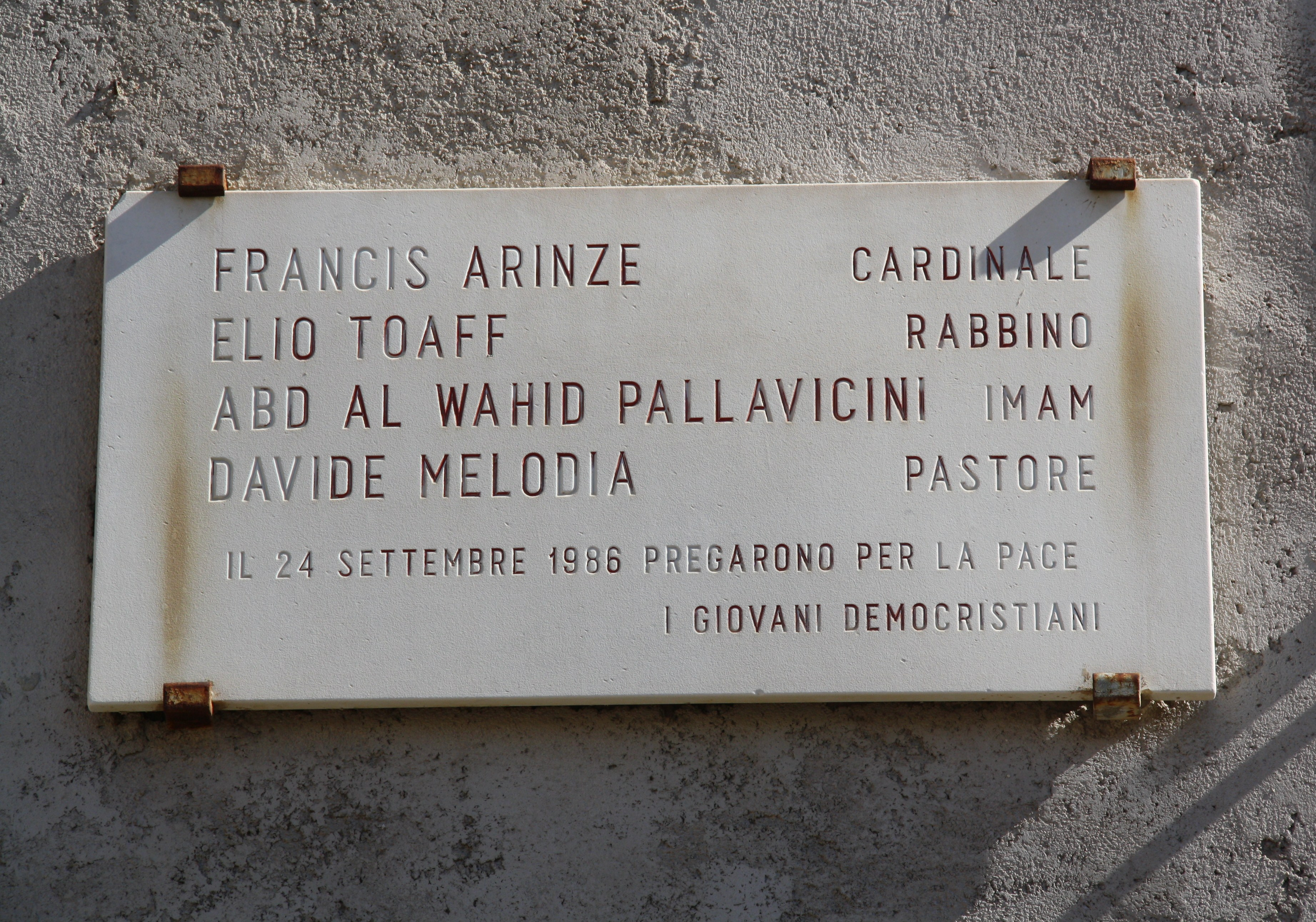 Italy, Livorno, Via della Venezia. The memorial plaque placed on the ruins of the “Chiesa del Luogo Pio” to remember the joint prayer for peace held on September 24, 1986 by: Cardinal Francis Arinze, Rabbi Elio Toaff, Imam Abd Al Wahid Pallavicini and Pastor Davide Melodia.